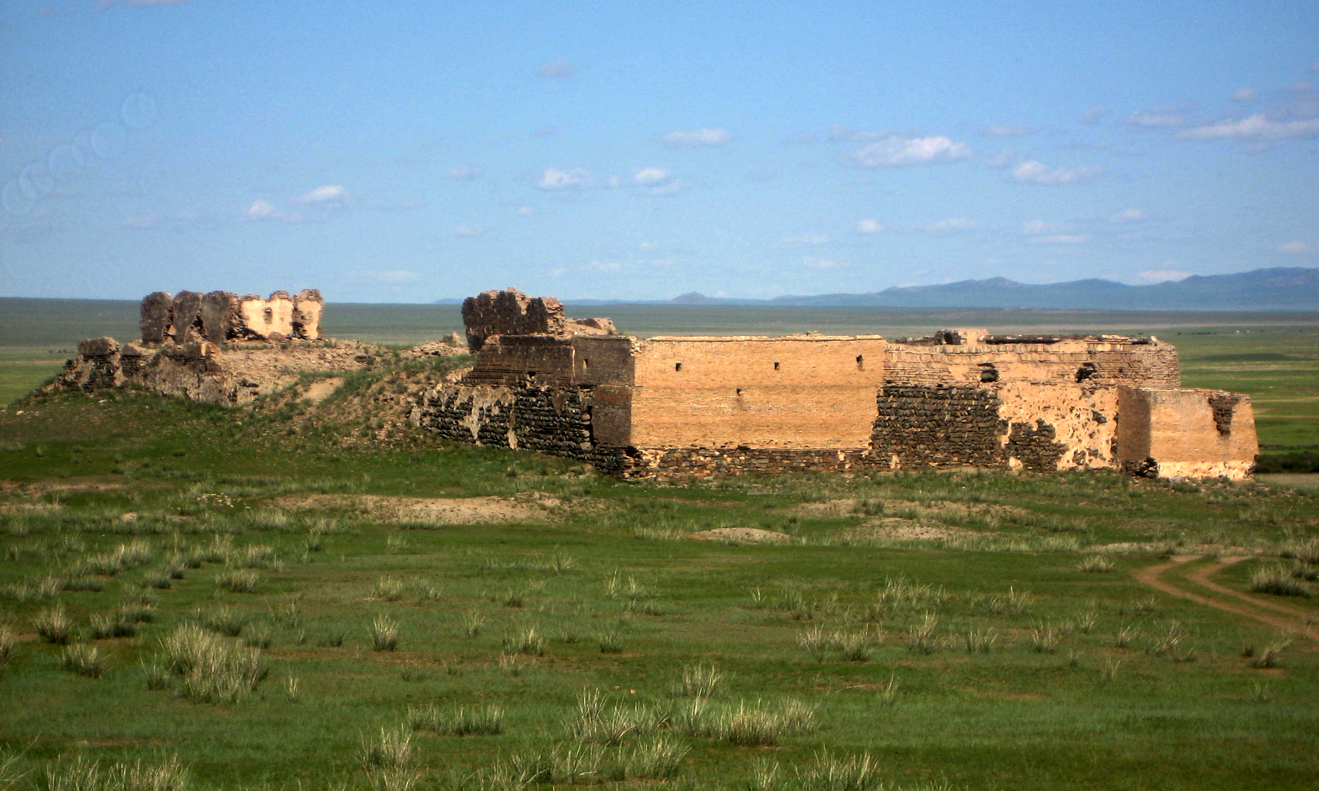 Located in Dashinchilen sum of Bulgan, "Цогт тайжийн цагаан байшин" or "Tsogt Taij's White House" is the remains of a castle built by the noble Choghtu Khong Tayiji in 1601.